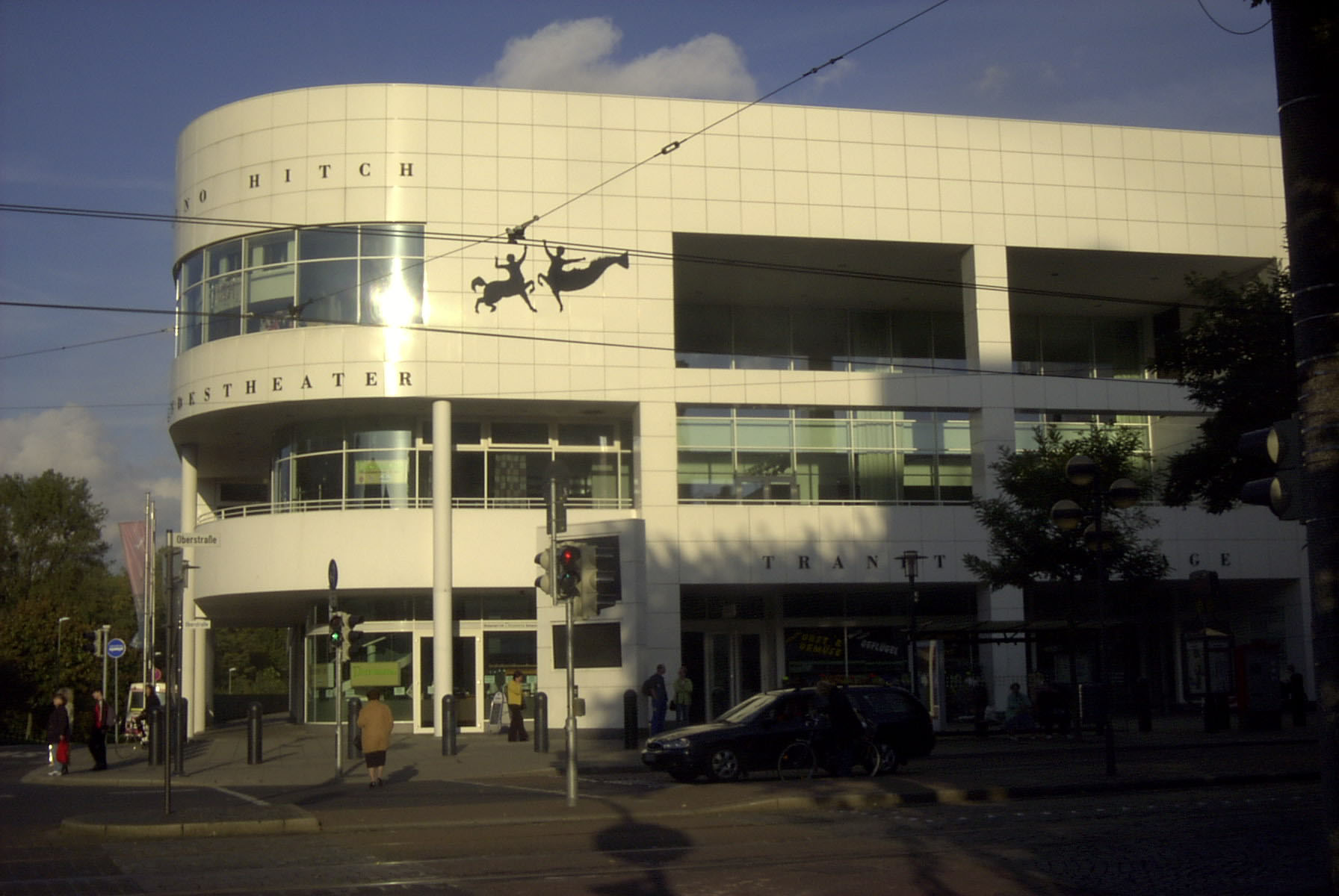 Neuss, Rhenanian Theatre